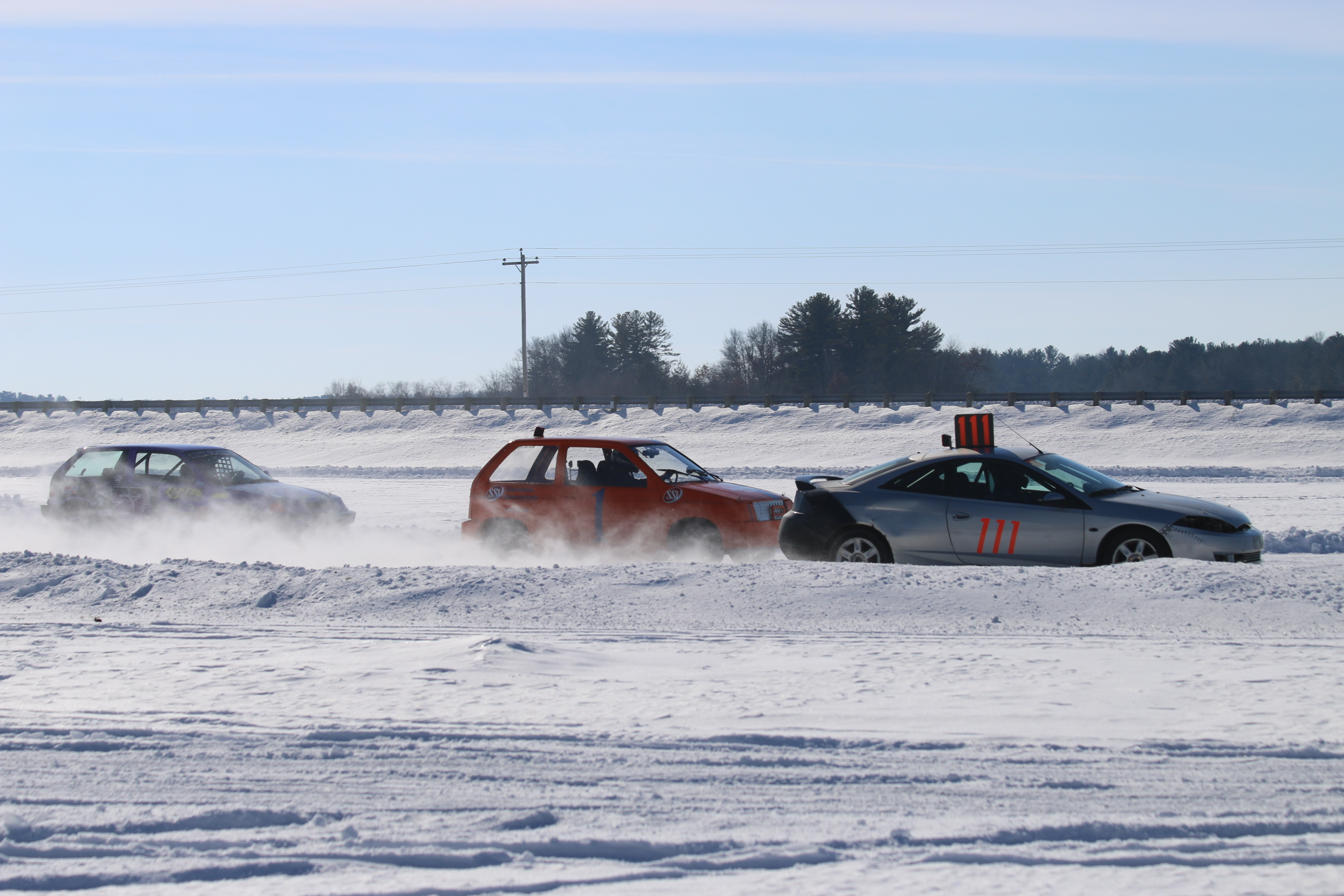 Front Wheel Drive Studded cars racing on Lake DuBay in the Winter Thunder program (near Knowlton, Wisconsin).